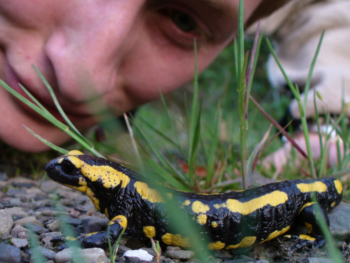 Feuersalamander (Salamandra salamandra) in Walpersdorf, NRW, Germany near a wood. I´m in the Background